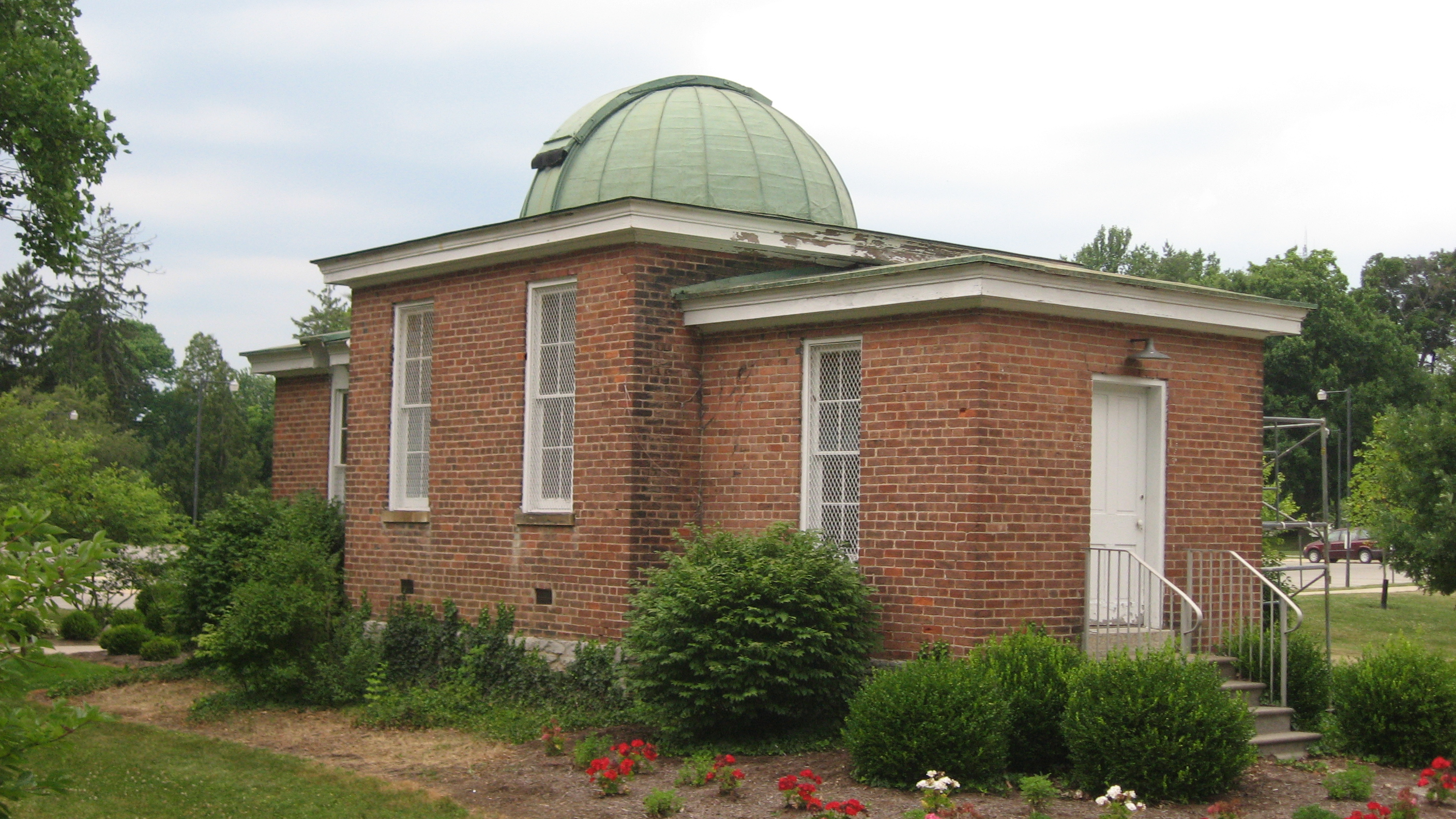 Southern and eastern sides of the Earlham College Observatory, located off U.S. Route 40 (the National Road) on the campus of Earlham College in Richmond, Indiana, United States. Built in 1861, it is listed on the National Register of Historic Places.